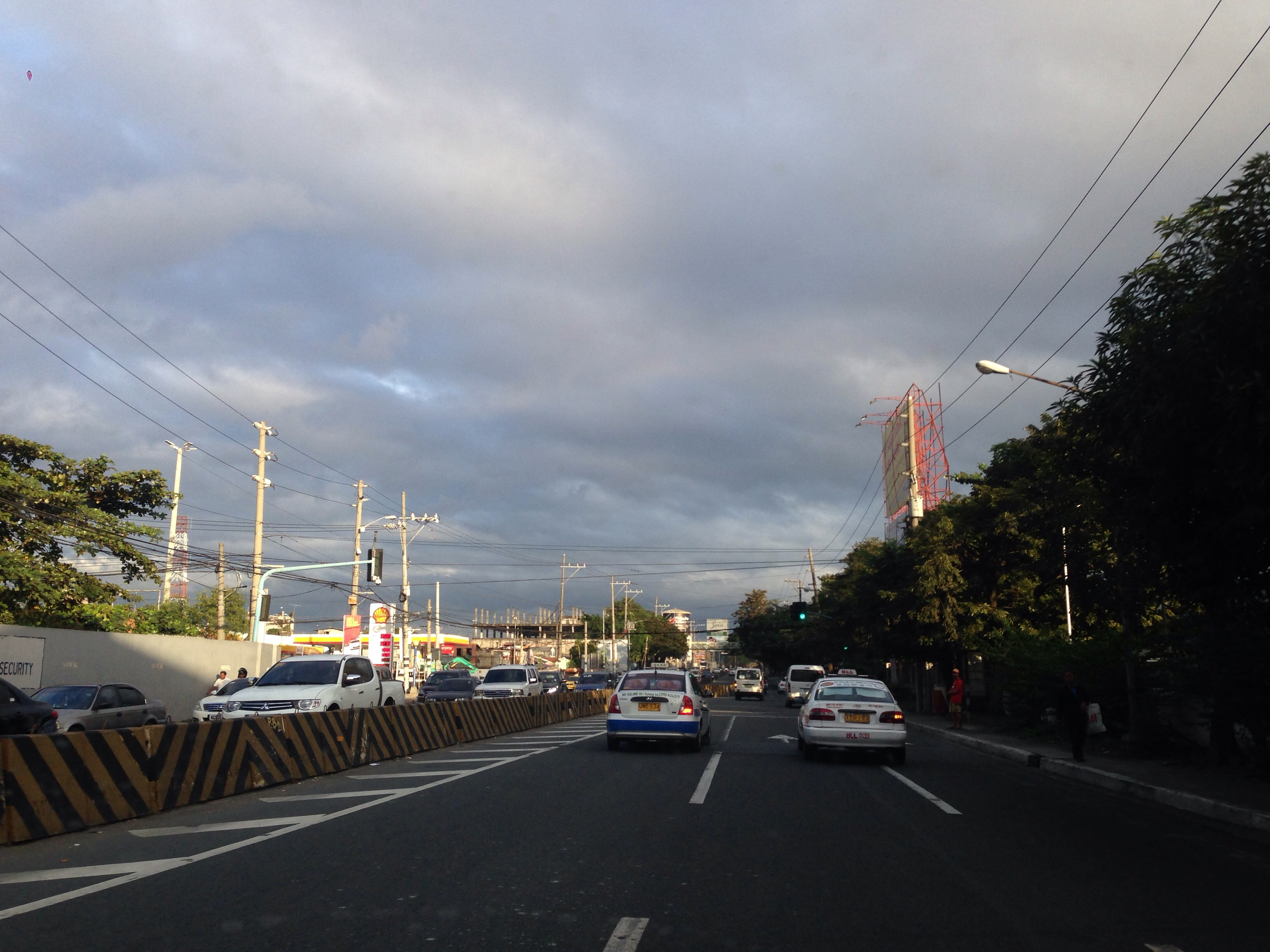 Andrews Avenue and Aurora Boulevard (Tramo Street), Pasay, Manila near Ninoy Aquino International Airport